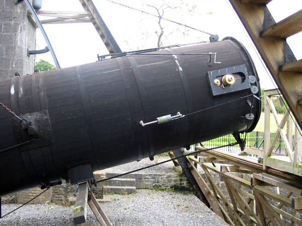 The "Great Telescope" on the grounds of Birr Castle, County Offaly, Ireland. Digital photo taken by User:Tpower, 6-21-05.